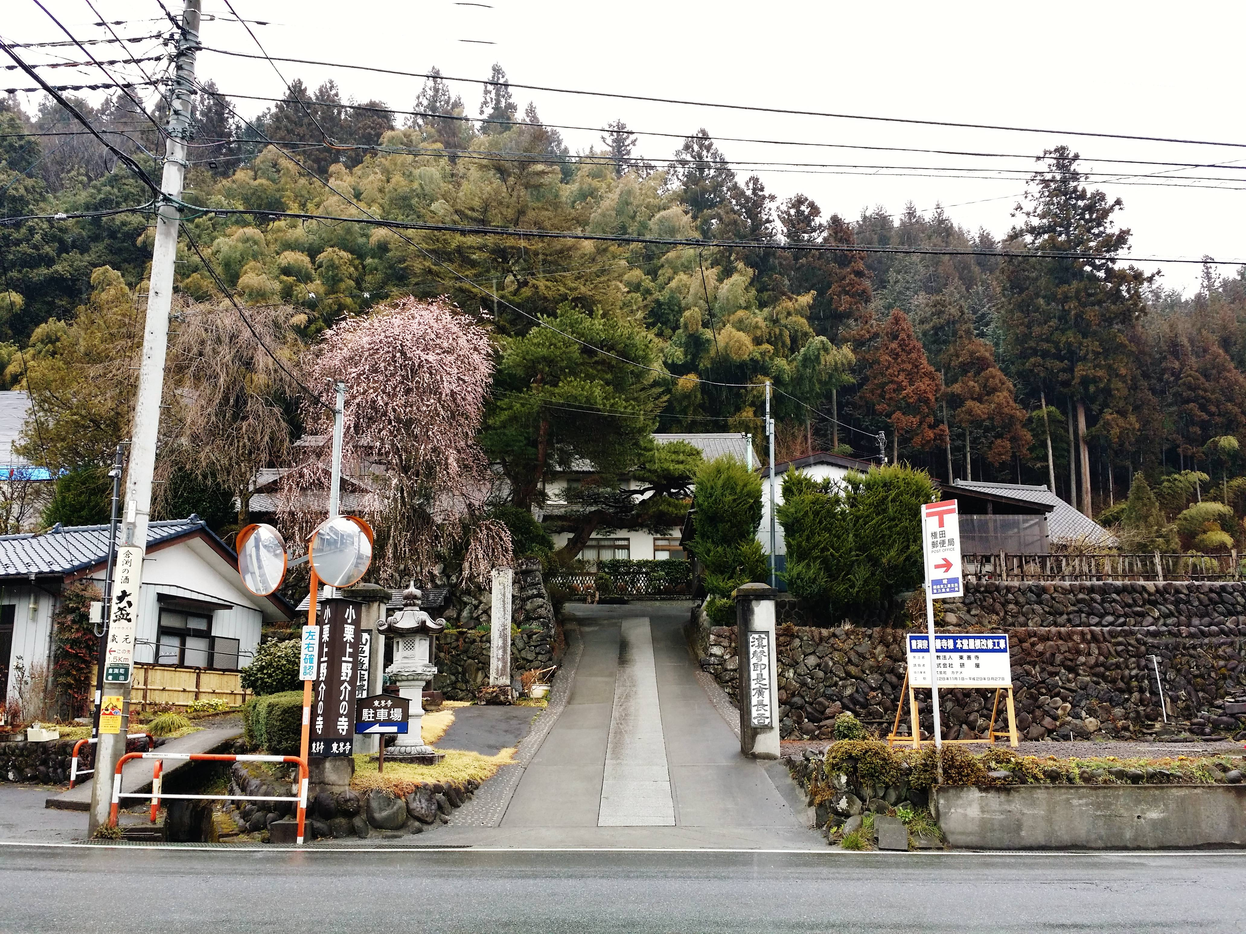 Tozen-ji (Takasaki, Gunma).